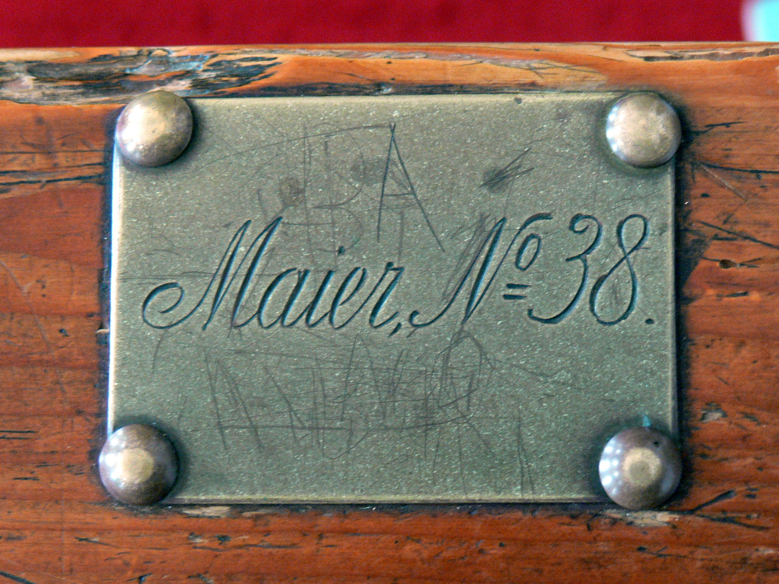 Saint Ulrich parish church in Hofkirchen i.M. Name plate for a paid seat in the church benches.